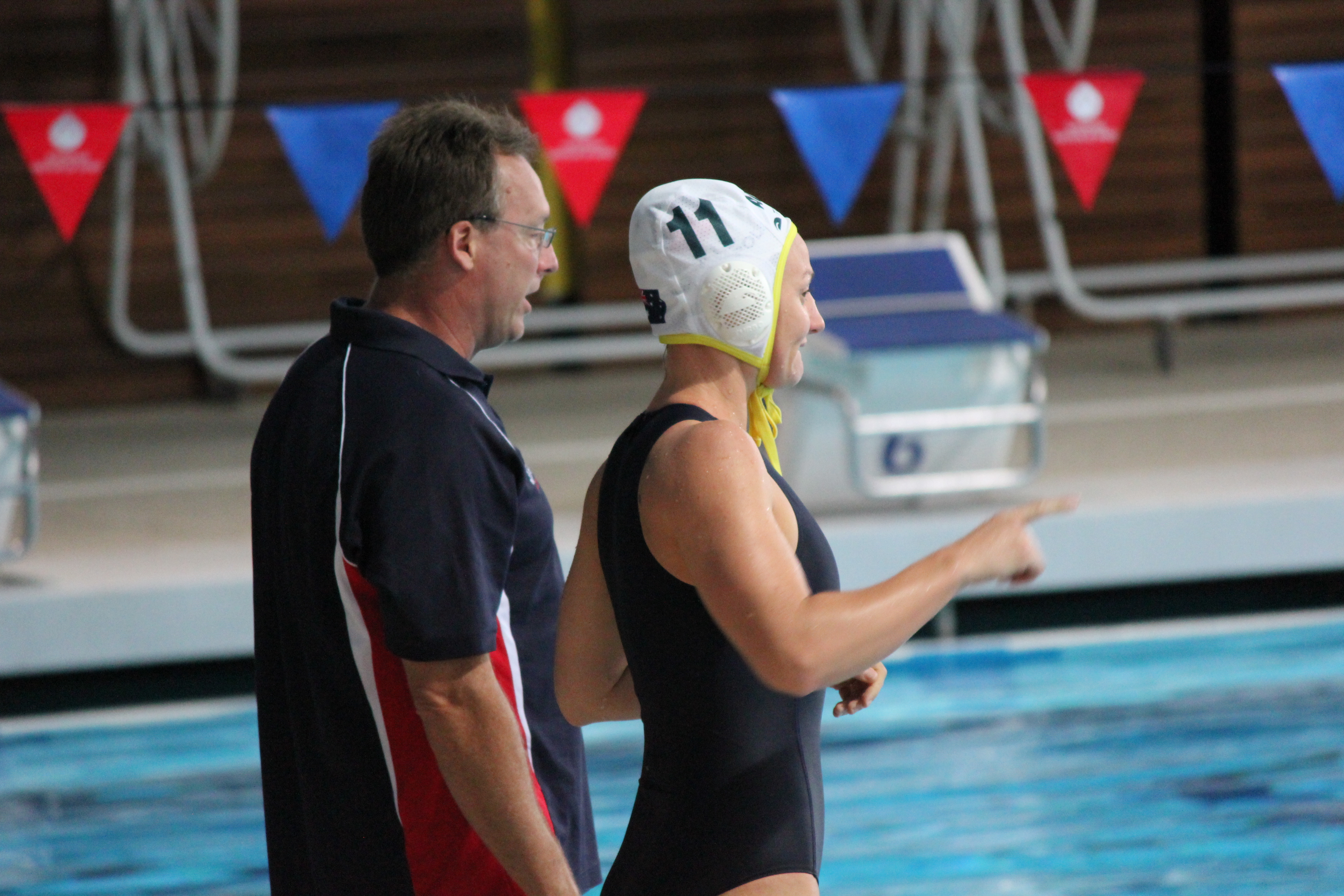 28 February 2012, fifth test match at the AIS Aquatic Centre between Australia women's national water polo team and Great Britain women's national water polo team. Australia won the test 14-3. Australia wore white caps and GBR wore black. Melissa Rippon is in cap number 11.